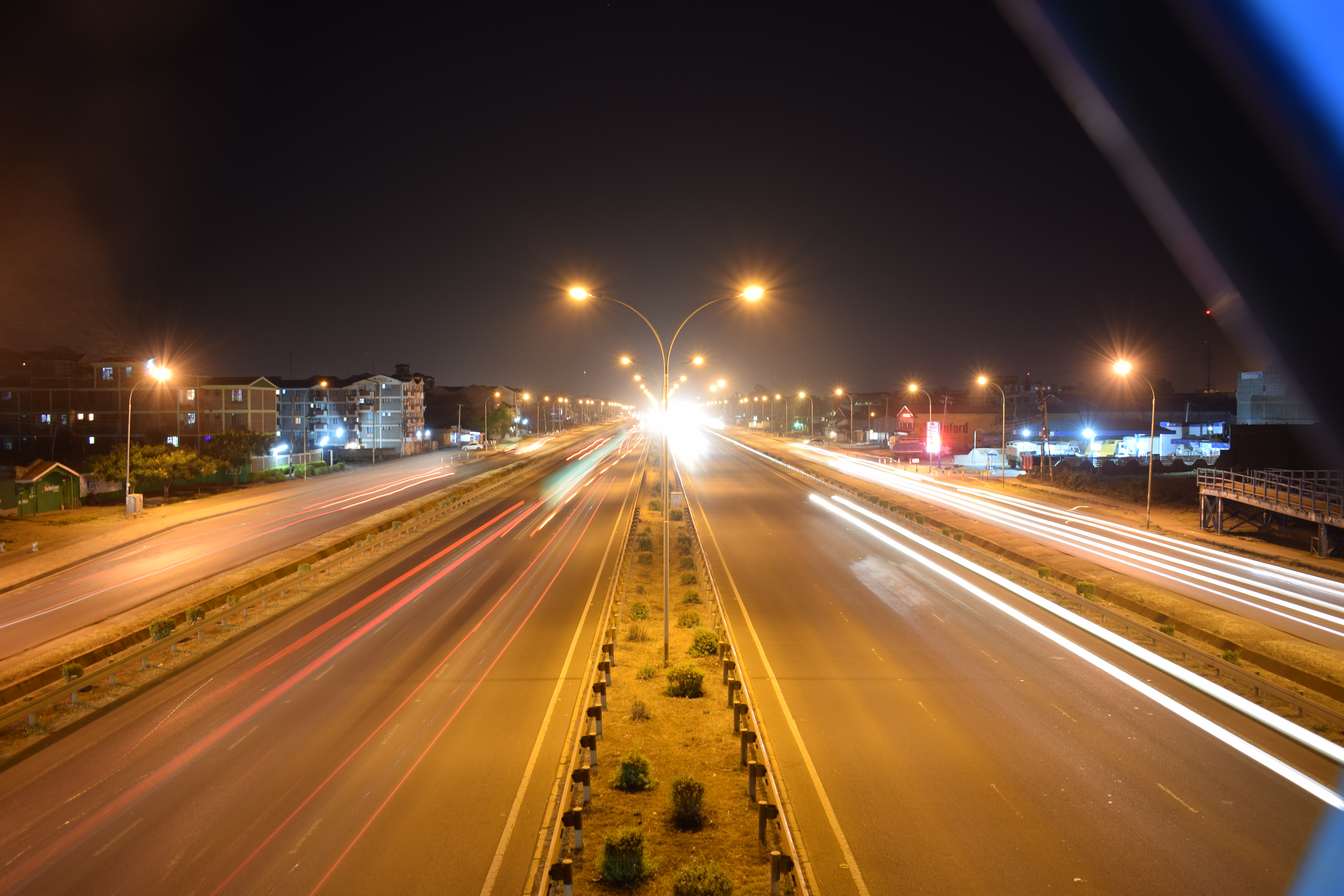 This is a photo of the Thika-Nairobi (Thika Highway) Shot at Juja, Kenya. The highway holds as the development of former President Kibaki and has helped a lot in connecting many towns. There have been reports and links suggesting that Uhuru wanted to take credit for its construction.* This highway has actually contributed a lot to economical and social growth in Kenya. This is an image with the theme "Africa on the Move or Transport" from: Kenya